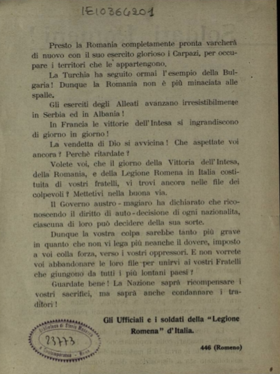 Propaganda poster of Romanian Legion (Italian army unit formed in 1918 by former Austro-Hungarian troops of Romanian nationality); verso